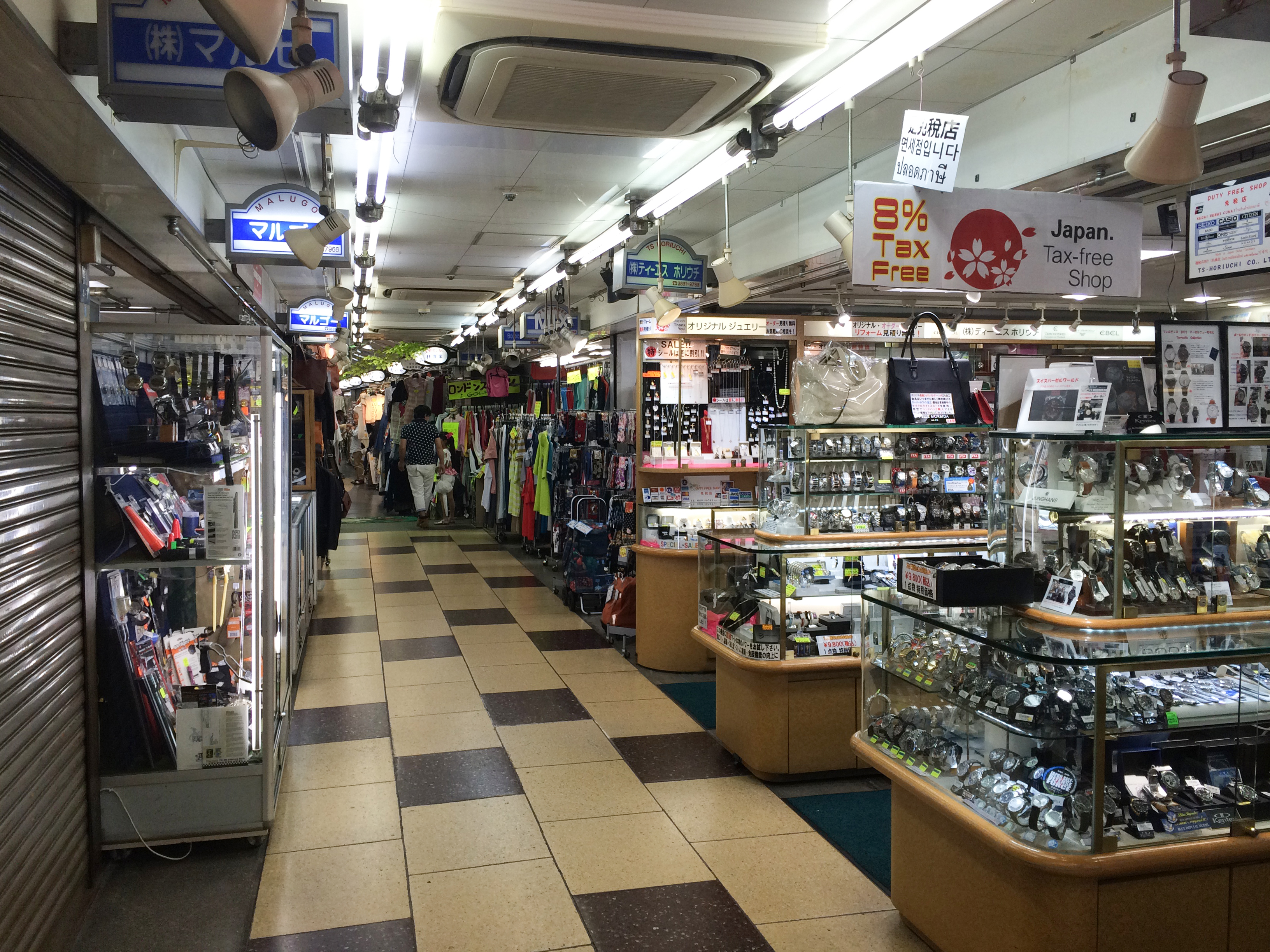 Ueno Ameya-Yokocho shops under track